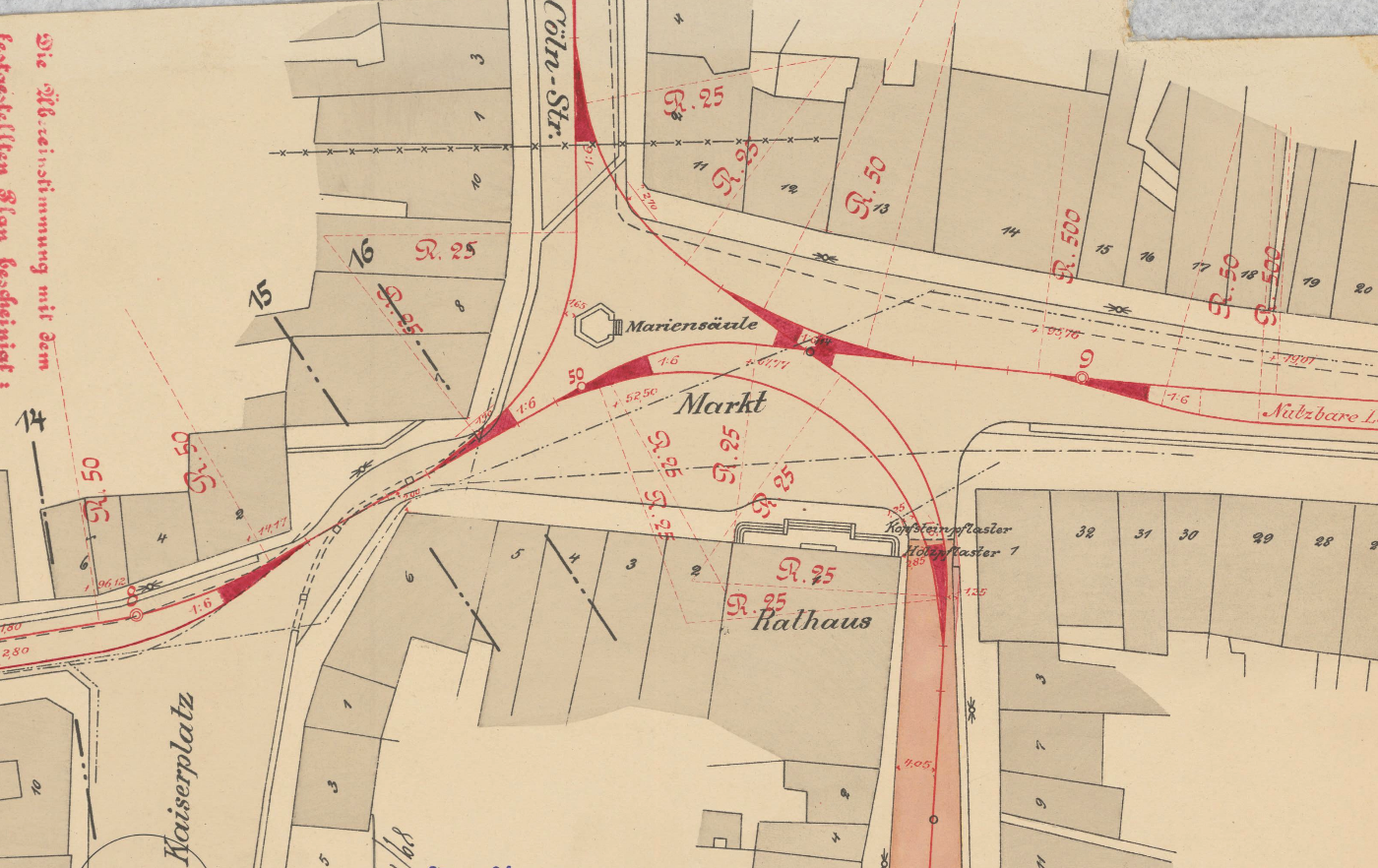 Tramway track layout Marktplatz Düren, 1908